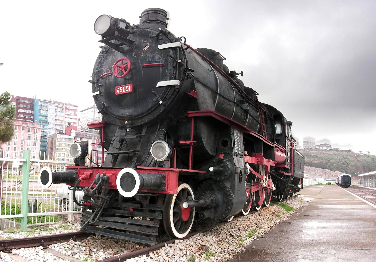 old retired locomotive in bandirma train station.